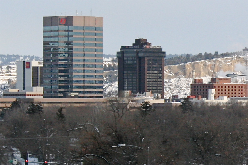 Downtown Billings, Montana from Grand Hill